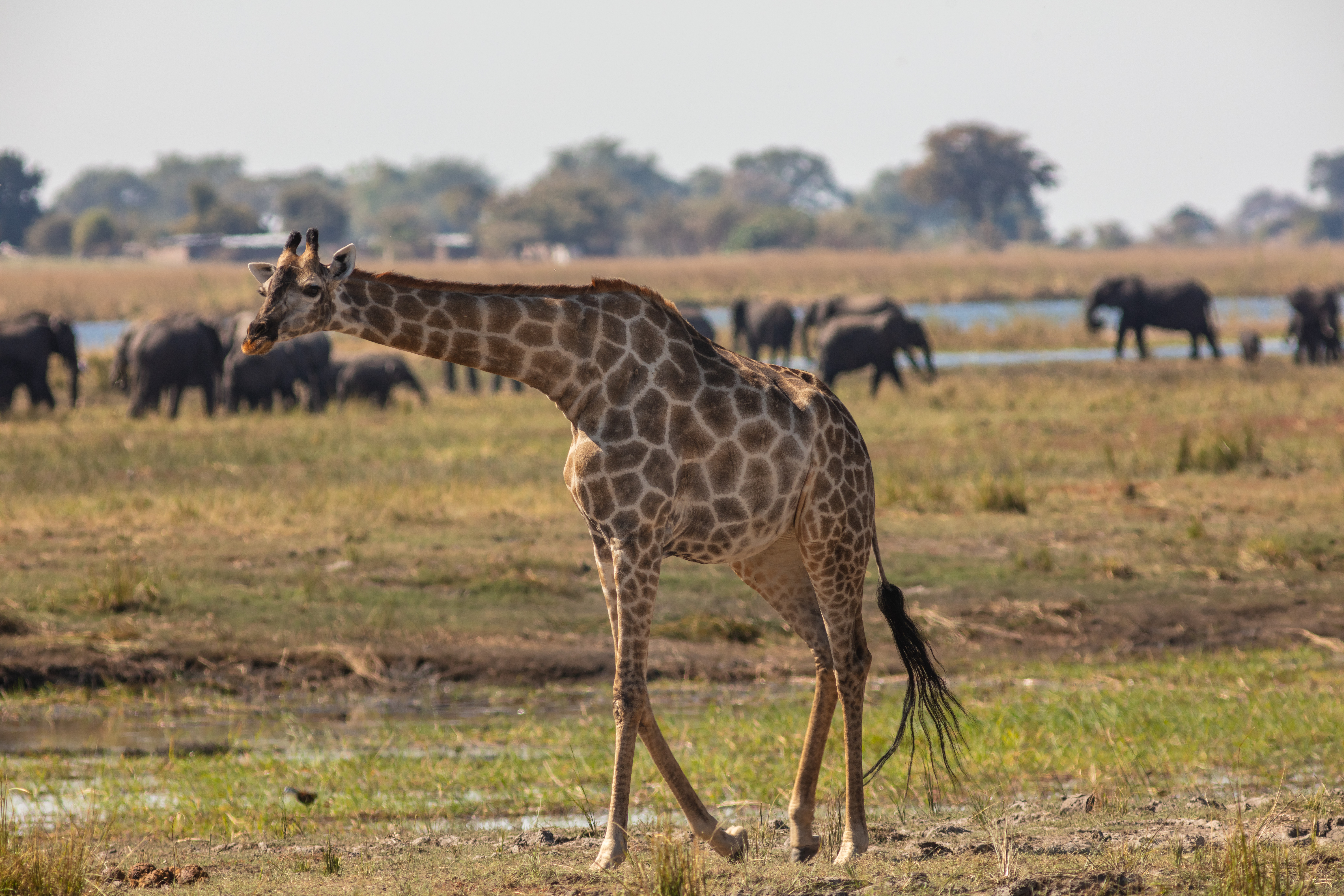 Northern giraffe (Giraffa camelopardalis), Chobe National Park, Botswana